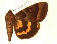 PLATE CXCIII.